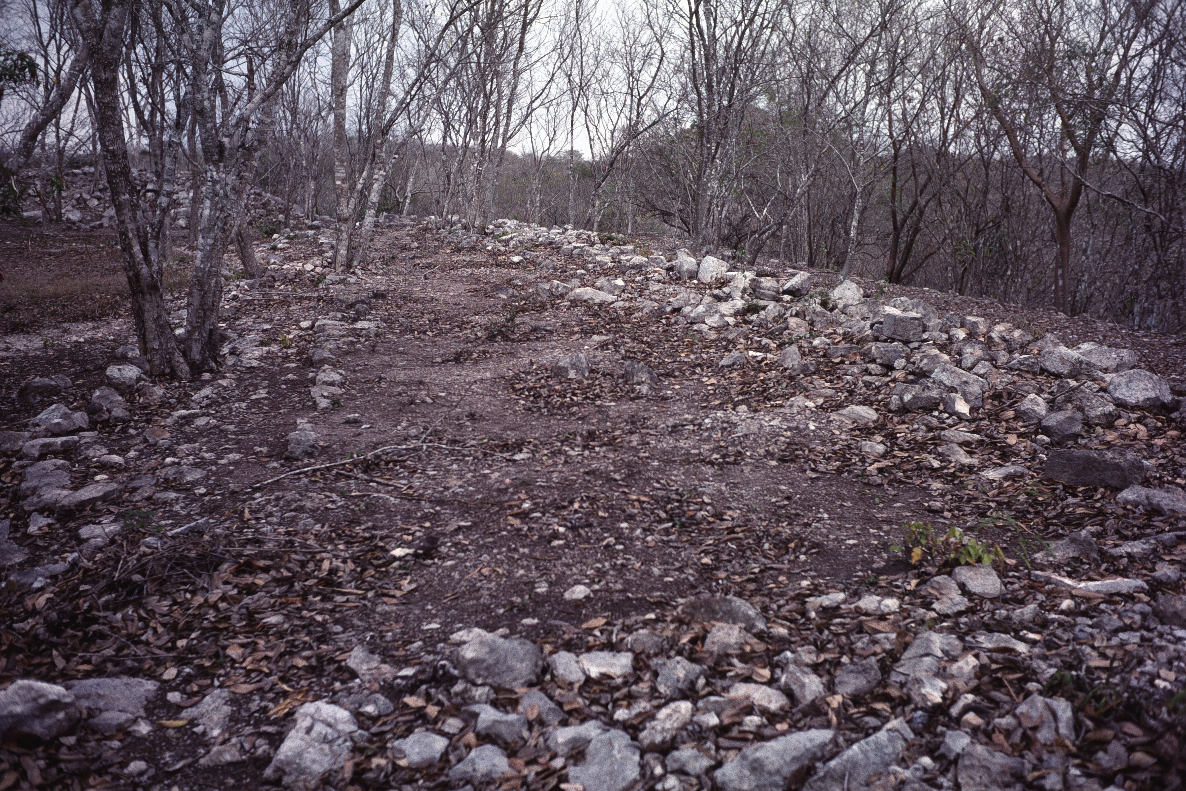 Uxmal, Yucatan, Mexico: C-shaped building in front of Governeur's Palace